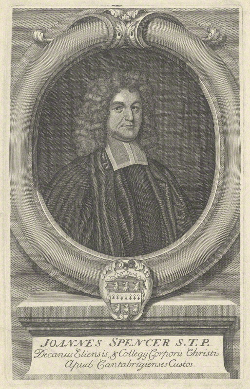 John Spencer 1630–1693) by George Vertue line engraving, published 1727 10 5/8 in. x 6 3/4 in. (270 mm x 170 mm) plate size Given by the daughter of compiler William Fleming MD, Mary Elizabeth Stopford (née Fleming), 1931 NPG D29589